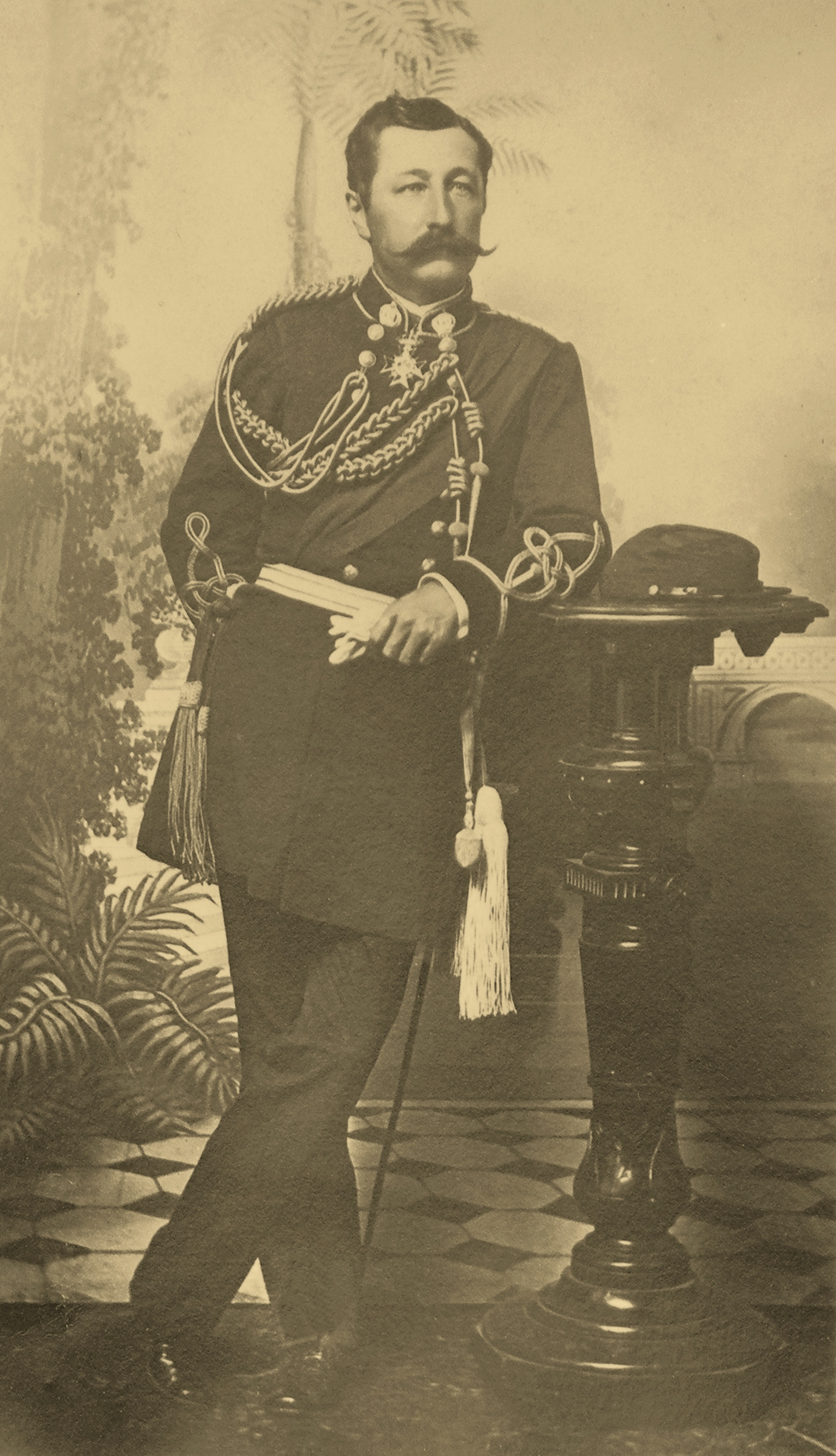 William H. Cornwell, wearing in court military uniform.